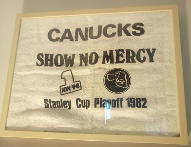 From Game 4 of the 1982 Campbell Conference Finals